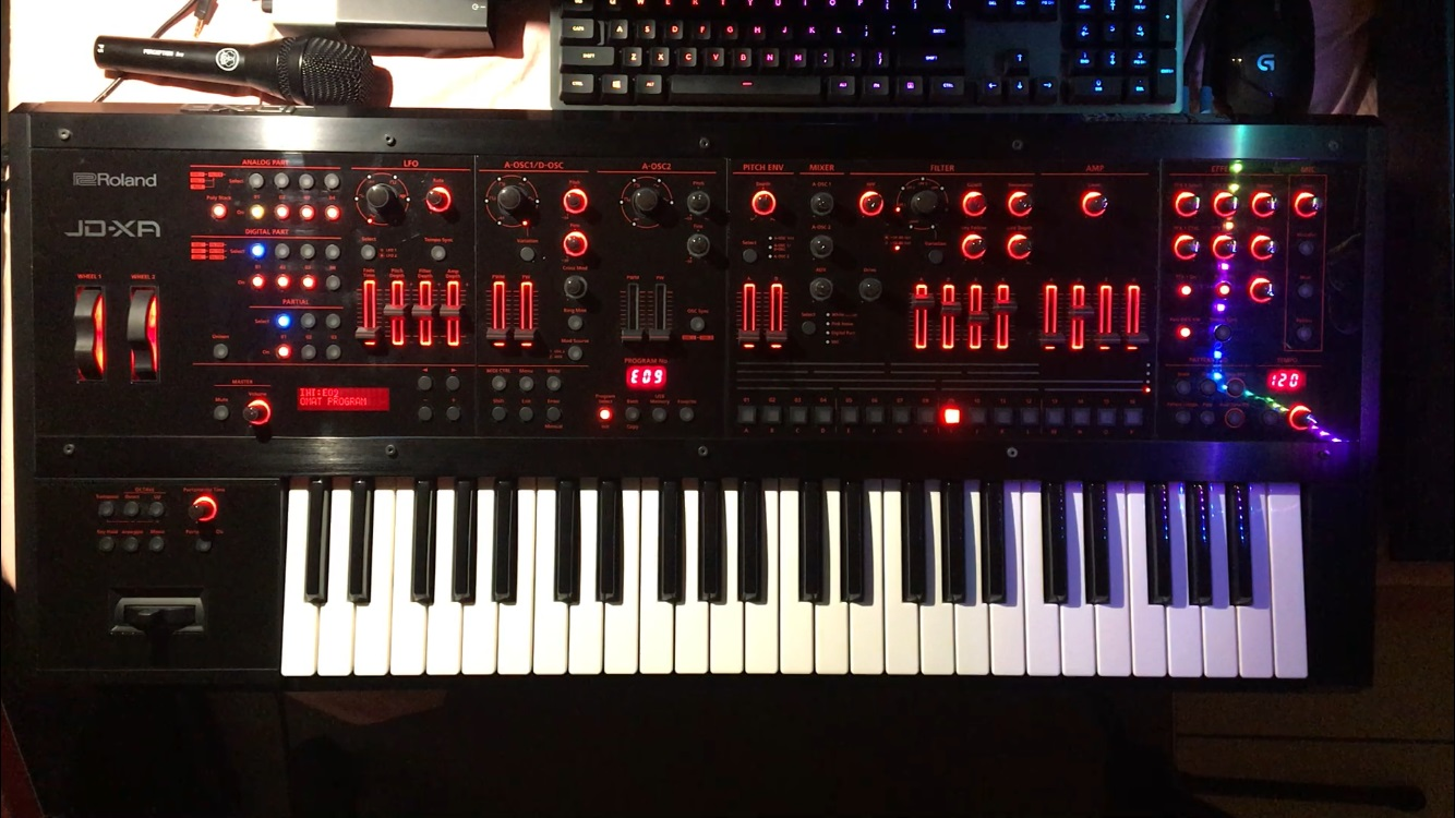 Roland JD-XA Analog/ Digital Synthesizer pictured here during the filming of a Youtube project by Imaginary Audience. The video depicts various synthesizer programming techniques during the creation of an original patch.